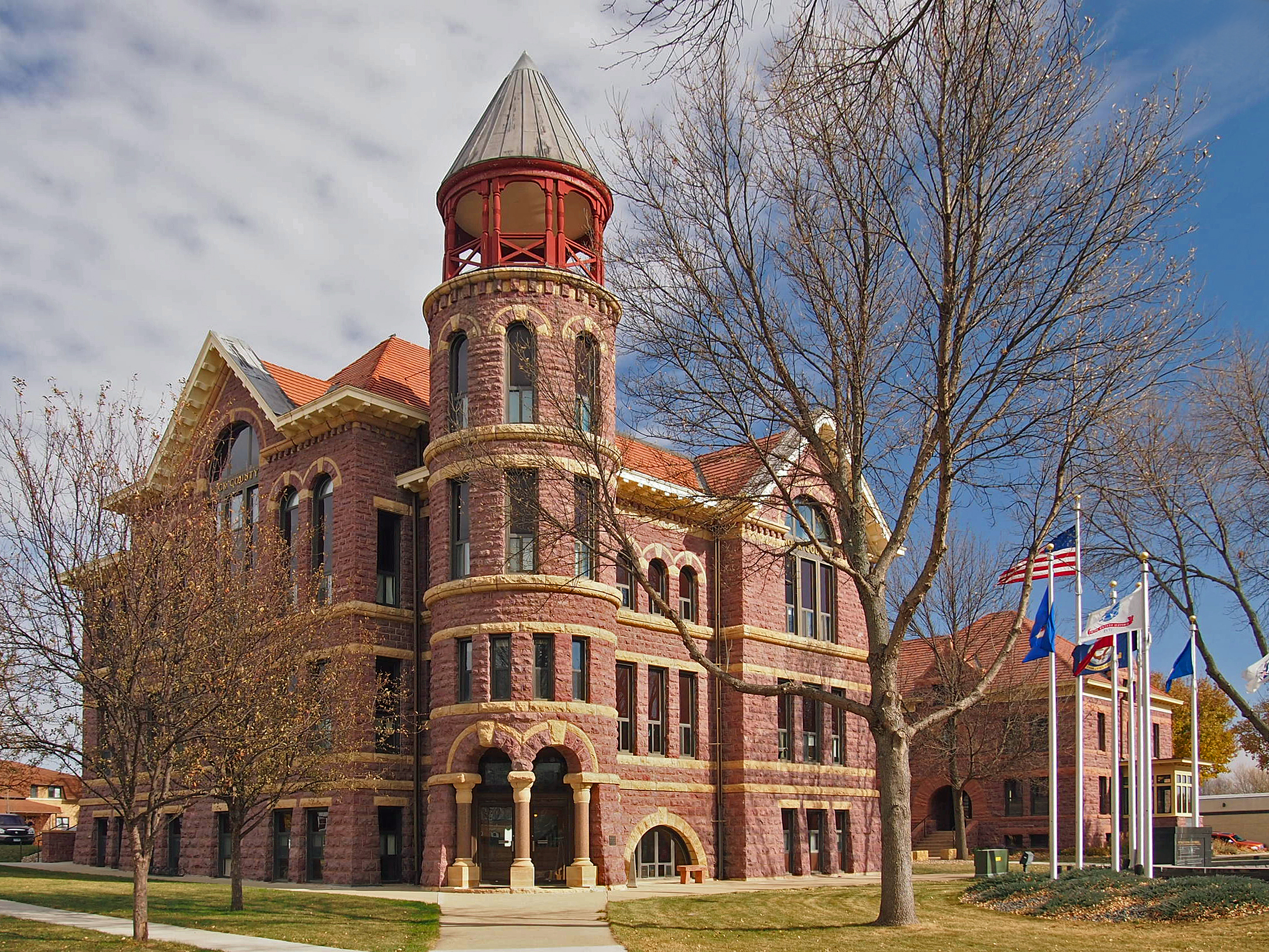 Rock County Courthouse & Jail, Luverne, Minnesota, USA